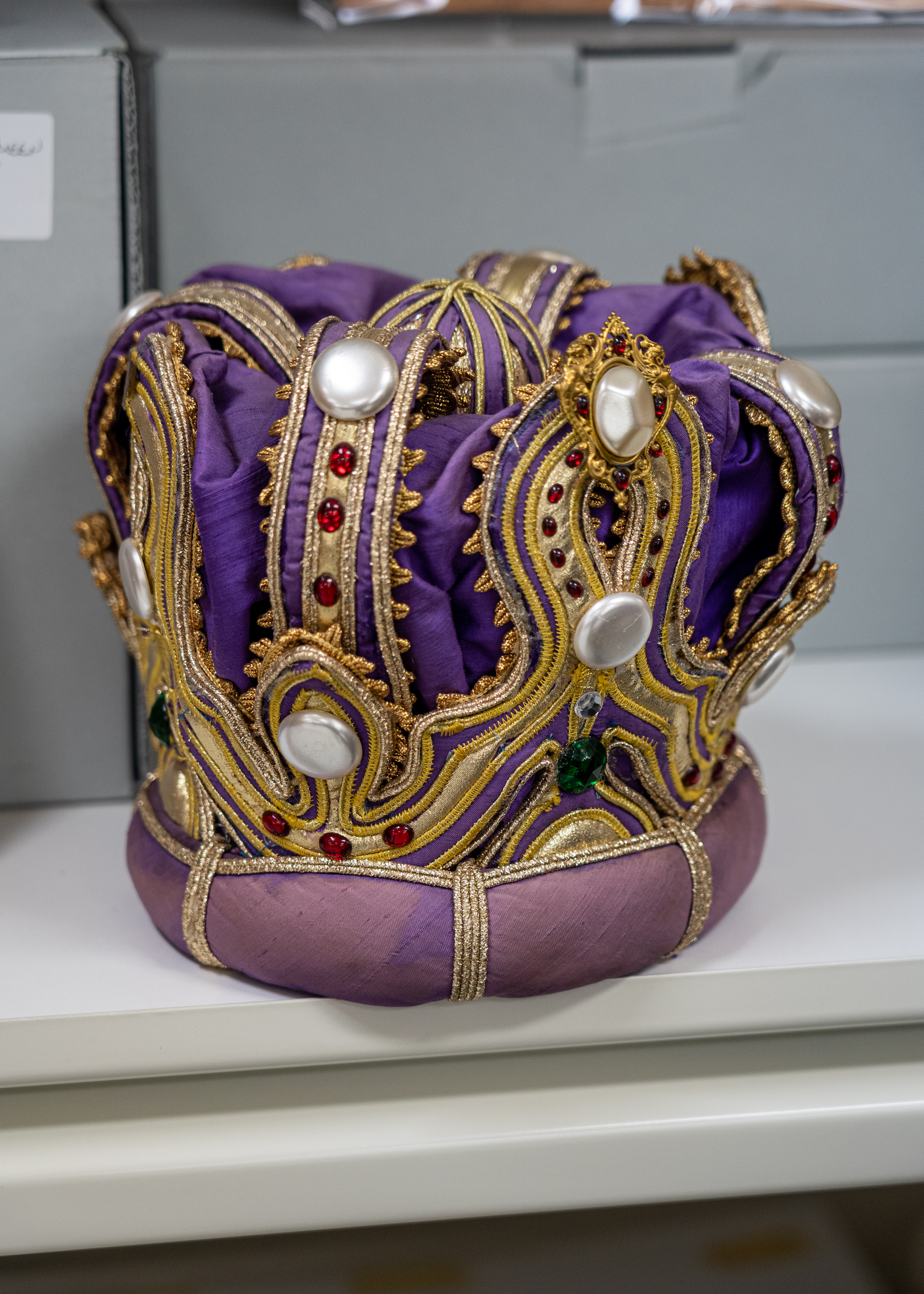 A crown worn by the King of Moomba festival, 1980s. Held in the City of Melbourne Art and Heritage Collection.